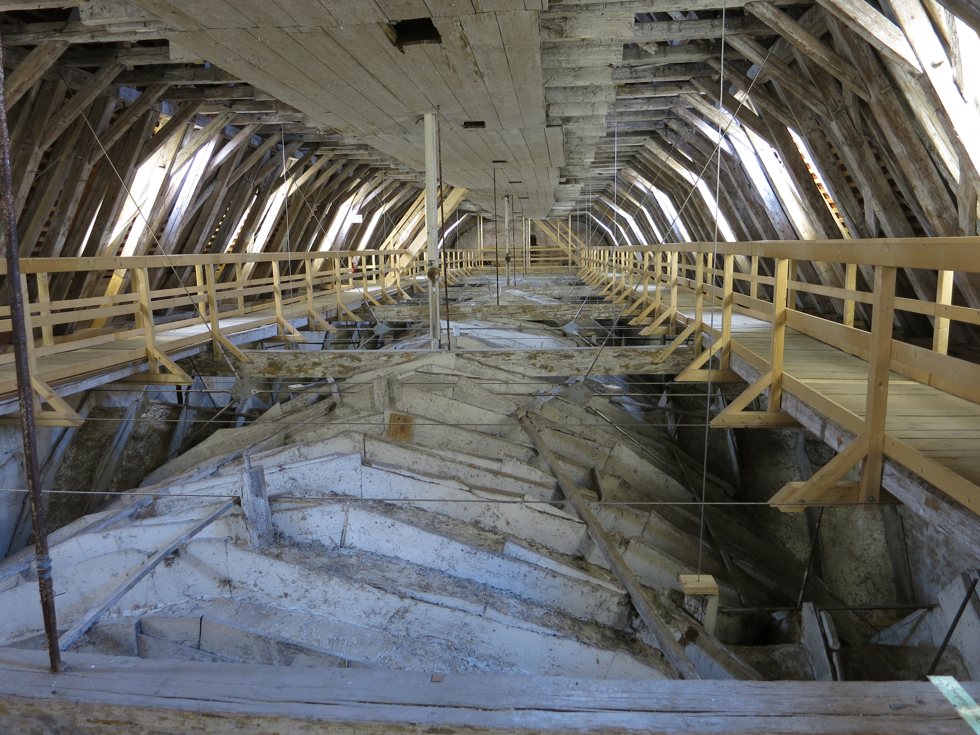 Under the roof of church St. Martin, Memmingen